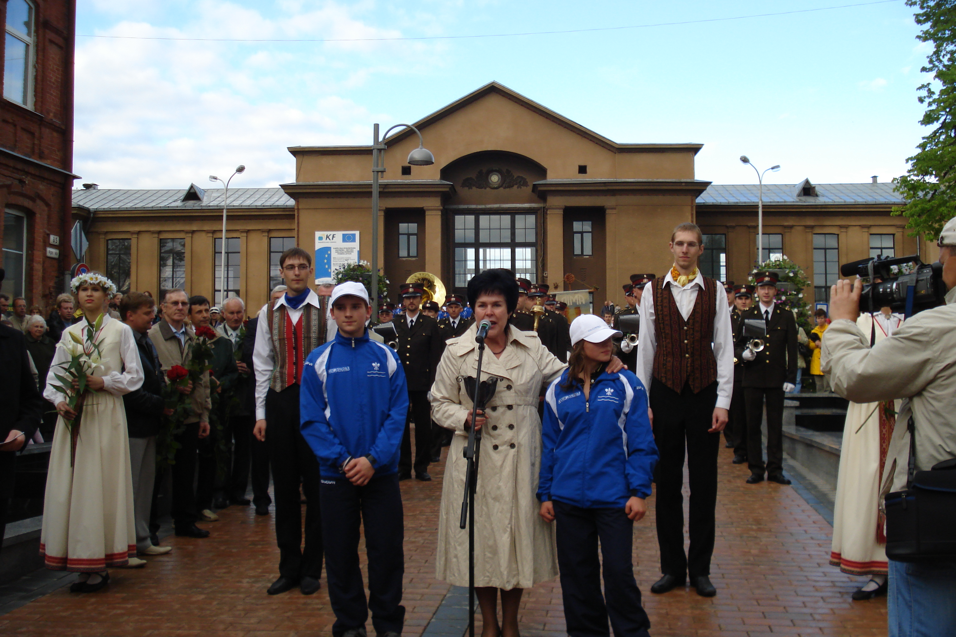 Daugavpils City Council President Rita Strode in the Daugavpils Town Festival